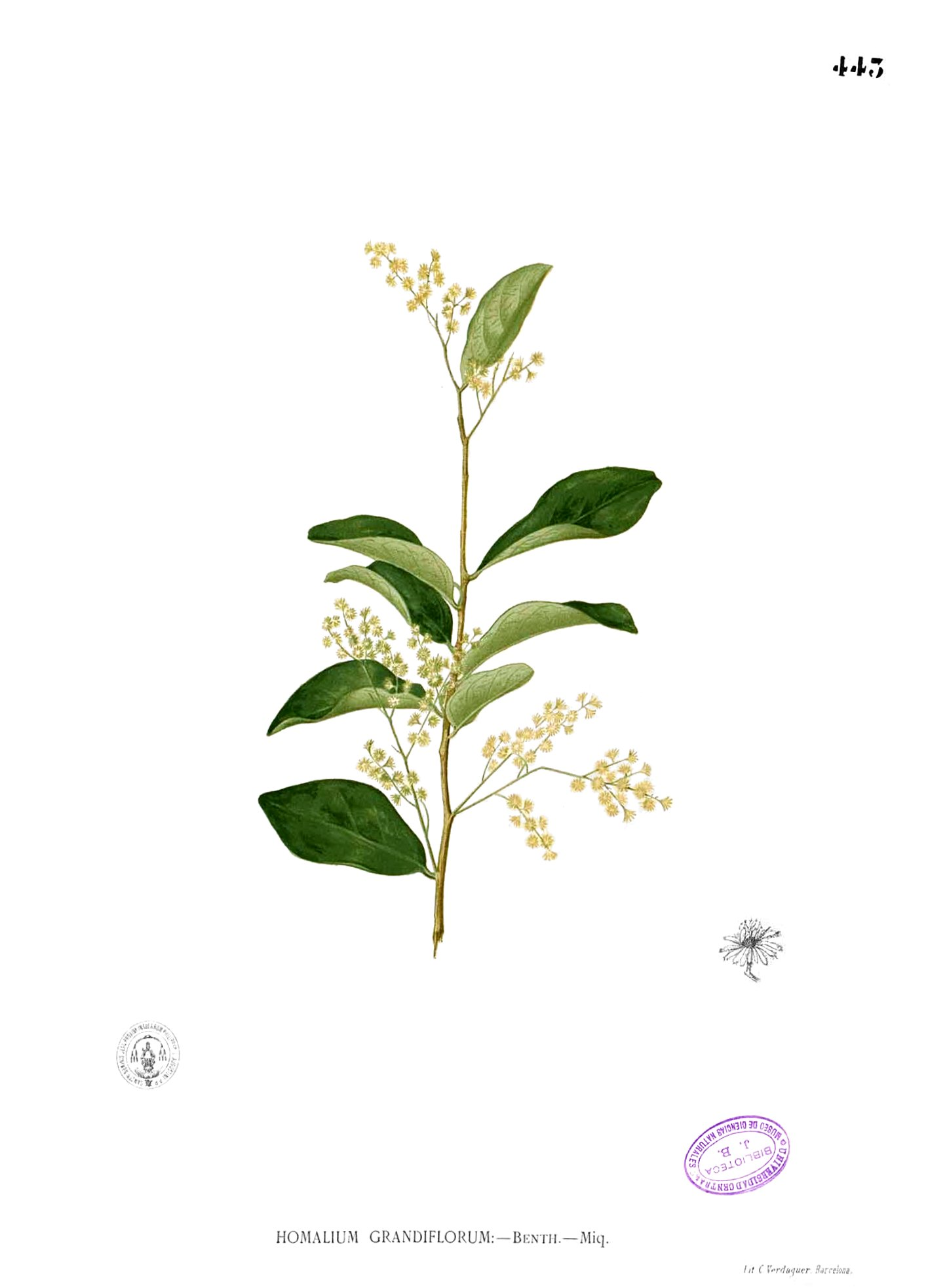 Homalium grandiflorum - Benth. - Miq.